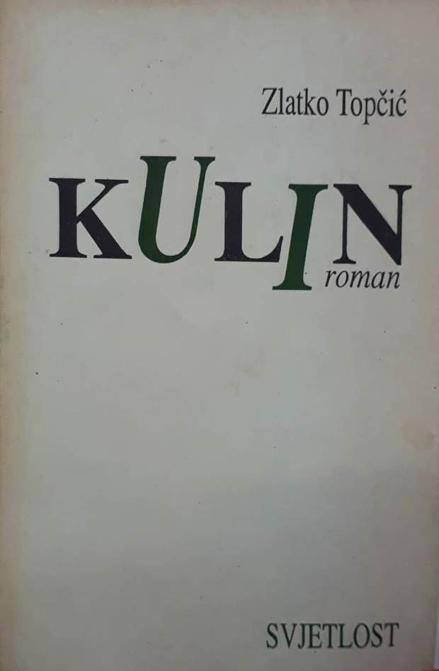 Book cover